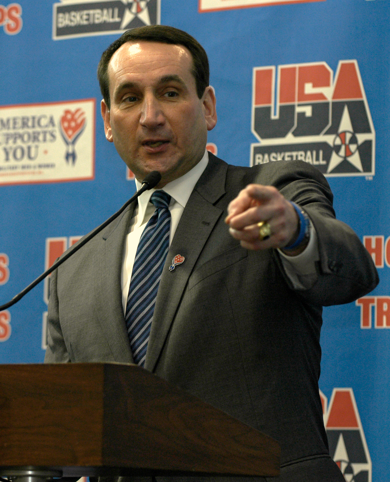 Mike Krzyzewski, USA Basketball National Team head coach, speaks to servicemembers’ children at the Pentagon Athletic Center during the "Hoops for Troops" program April 6, 2006. USA Basketball joined the America Supports You program and held the basketball clinic at the military headquarters.